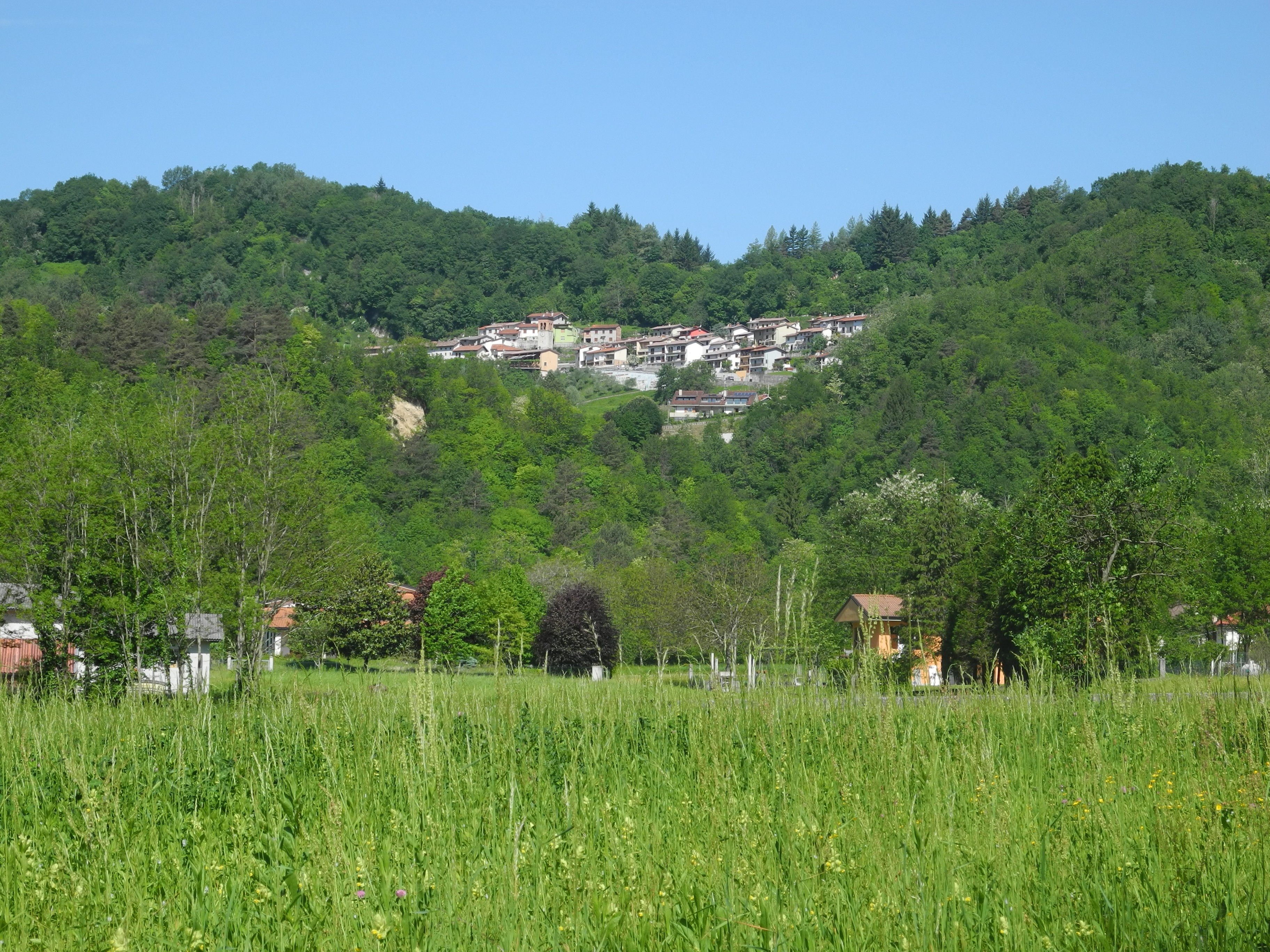 Manazzons (Pinzano al Tagliamento - Italy) seen from Pradaldon